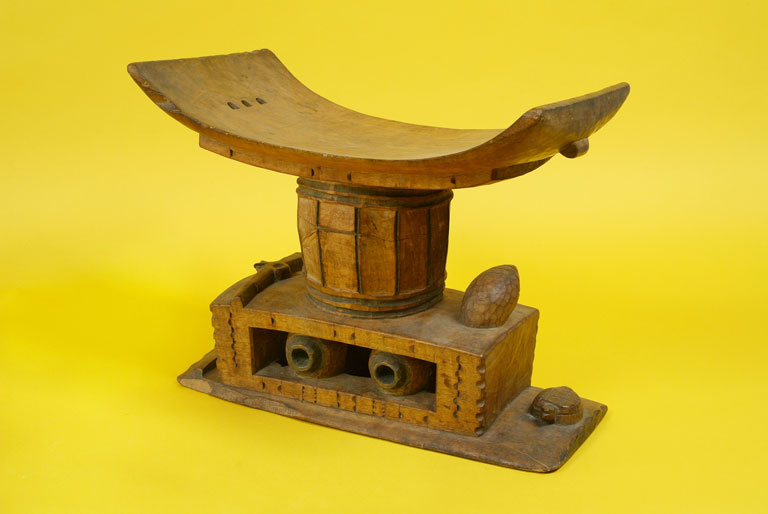 Queen Mother’s stool in the permanent collection of The Children’s Museum of Indianapolis